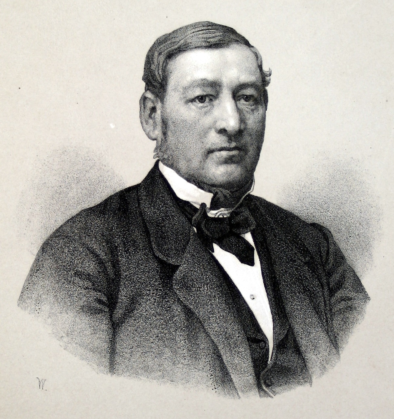 Portrait of August Bark from the book "Svenska industriens män" (1875)